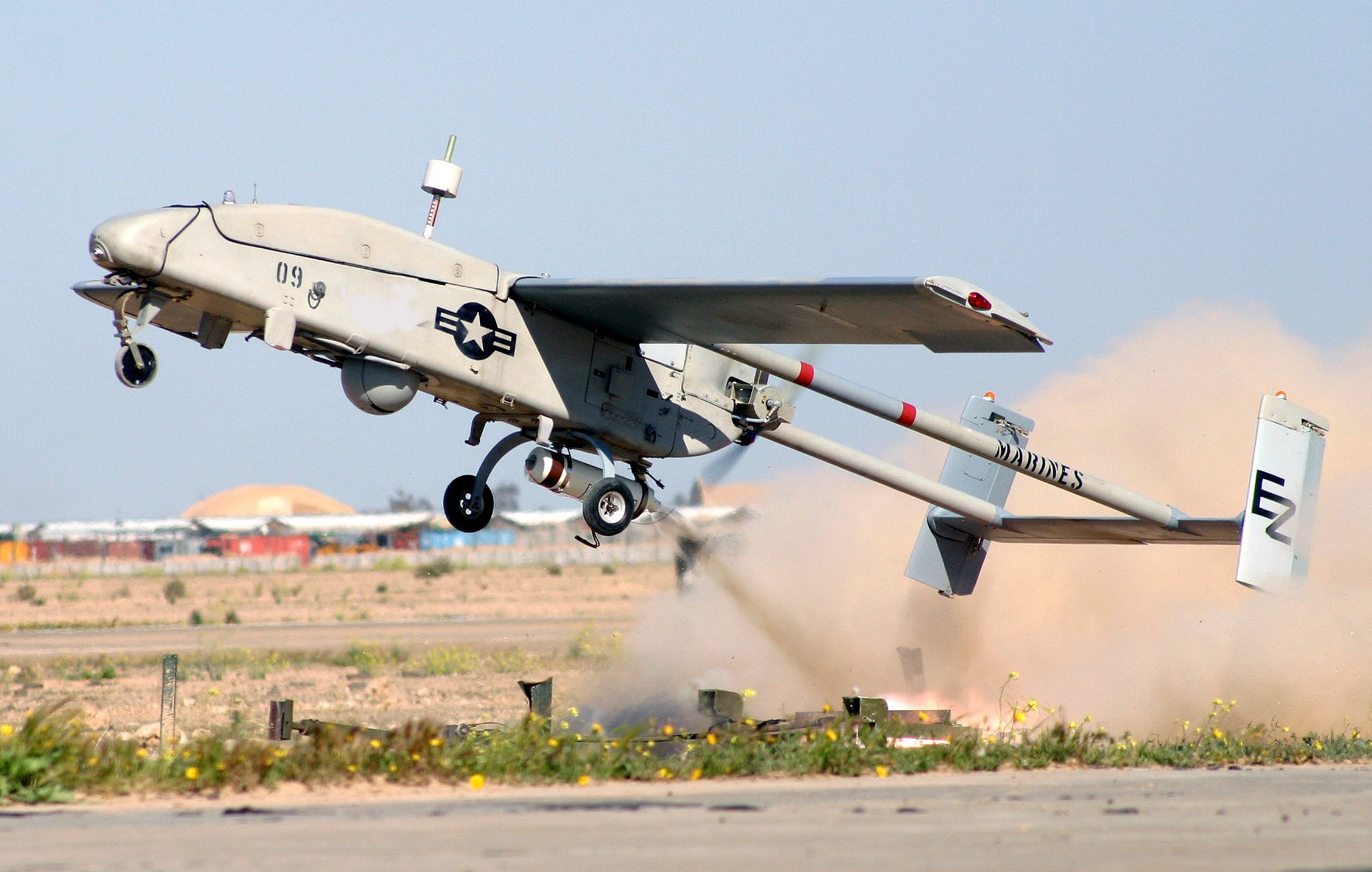 Unmanned aerial vehicle (UAV) - from the USMC Marine Unmanned Aerial Vehicle Squadron Two.